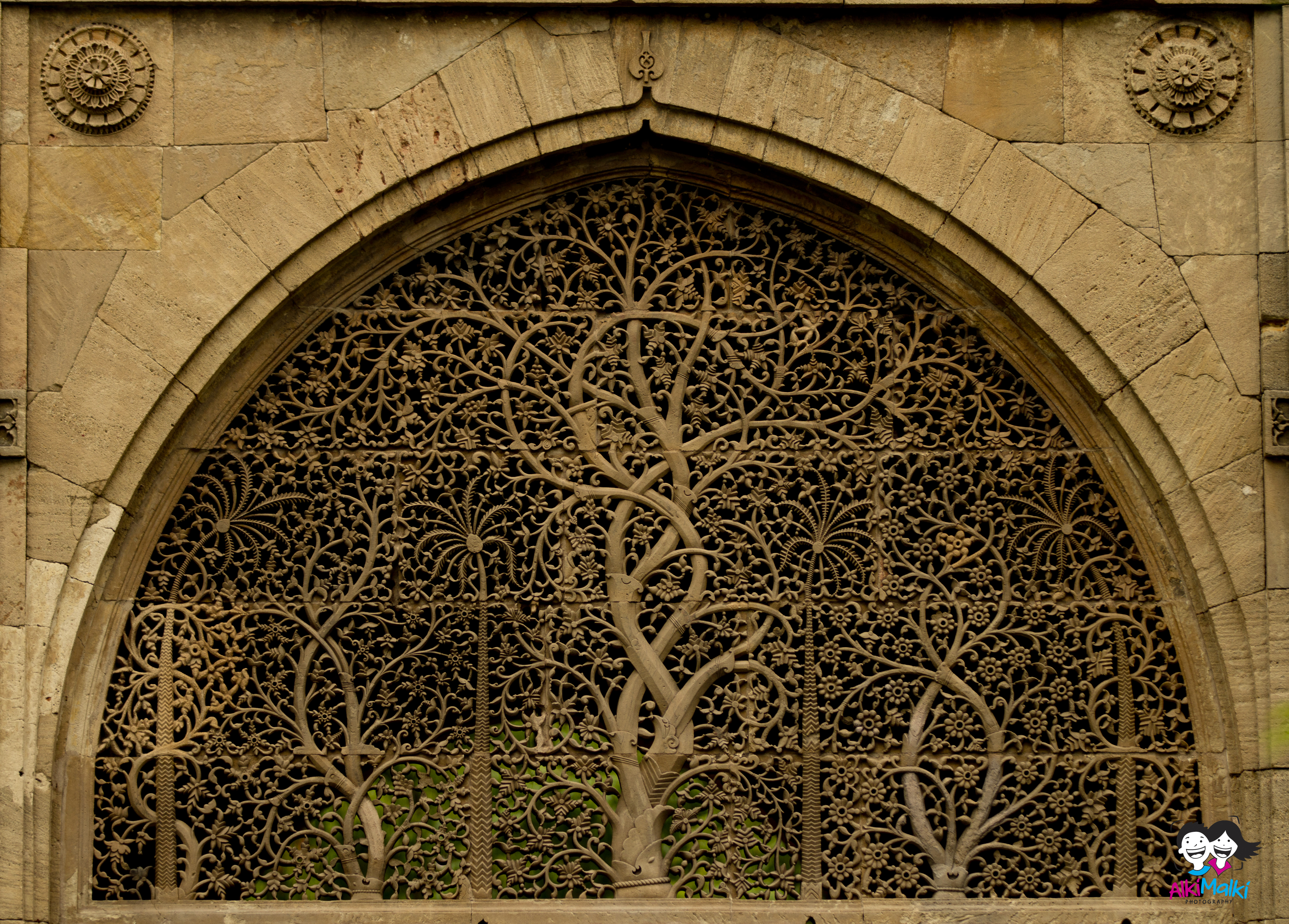 Sidi Saiyyed Mosque - A mosque with exquisite carvings.